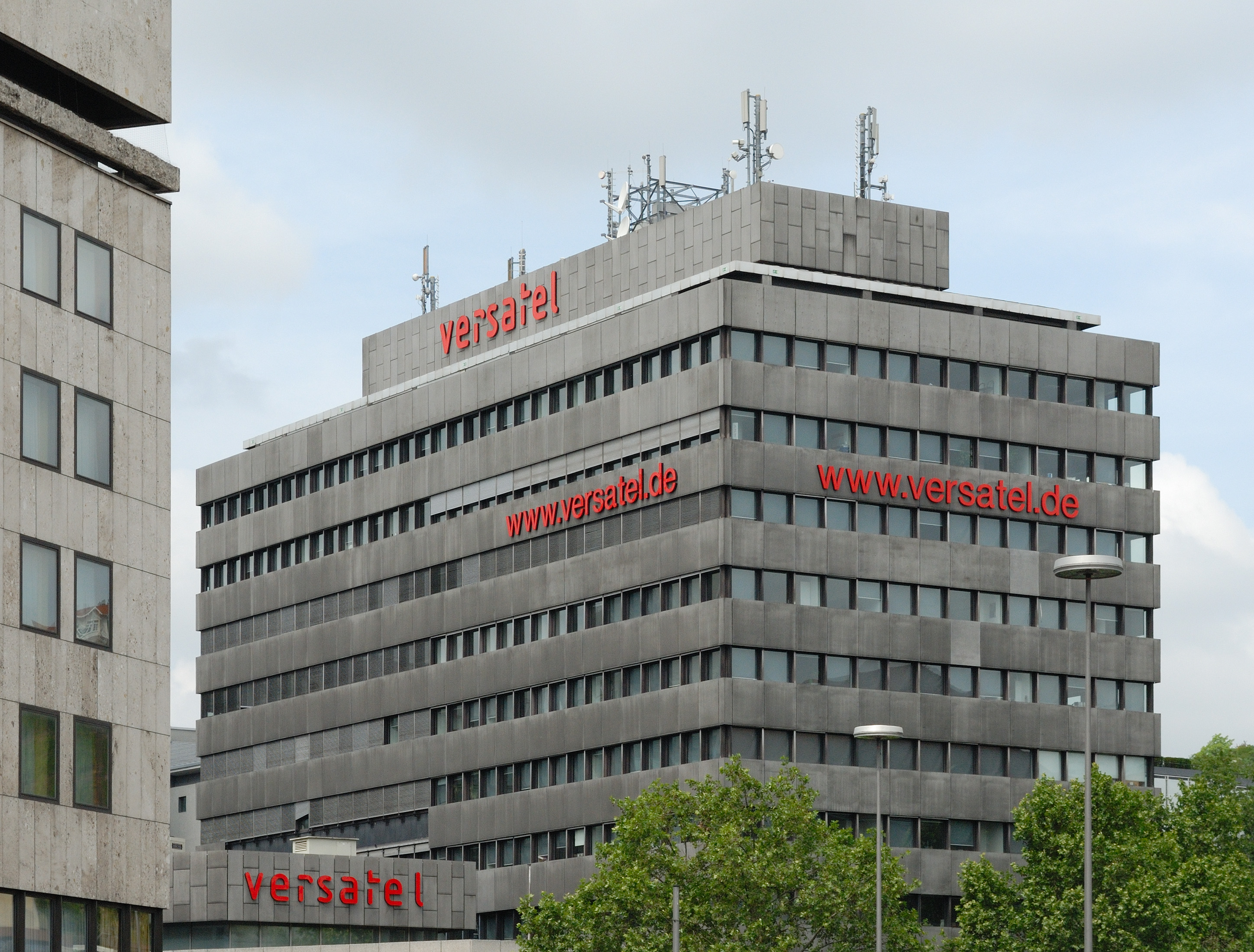 Former Versatel office for south Germany in Stuttgart.